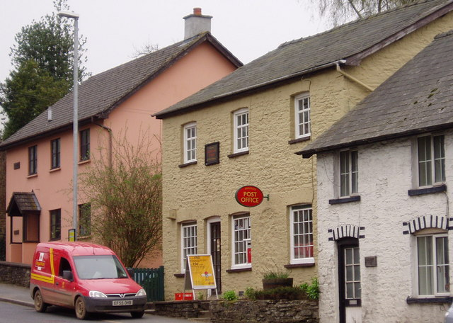 The Post Office and General Store at Erwood, a village on the on the A 470 between Brecon and Hereford.